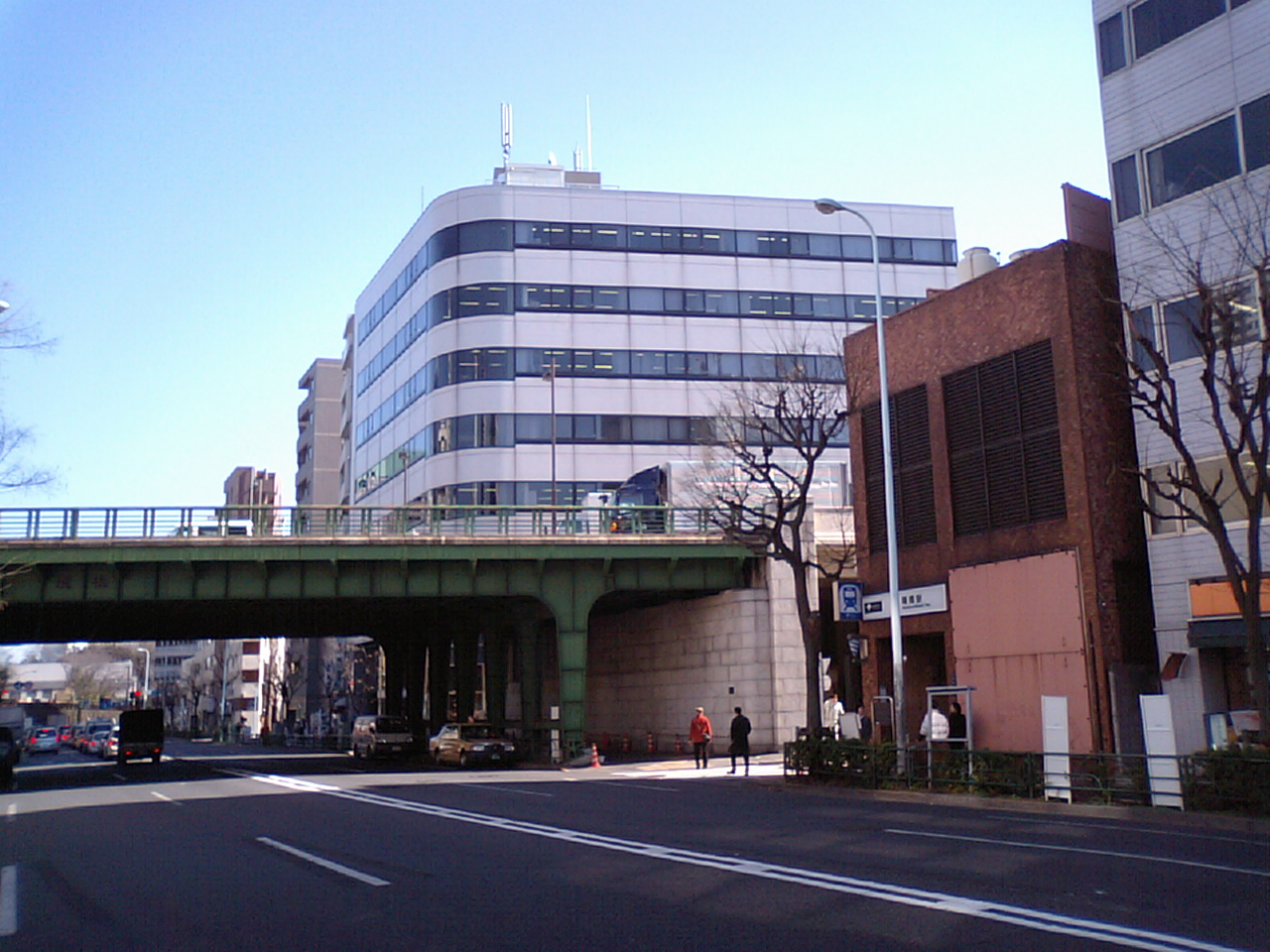 Akebonobashi station entrance and Akebonobashi bridge